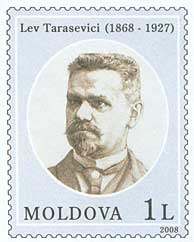 Stamp of Moldova